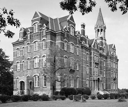 Fisk University, Jubilee Hall, Seventeenth Avenue, North, Nashville (Davidson County, Tennessee) - (cropped). Historic American Buildings Survey—HABS image.